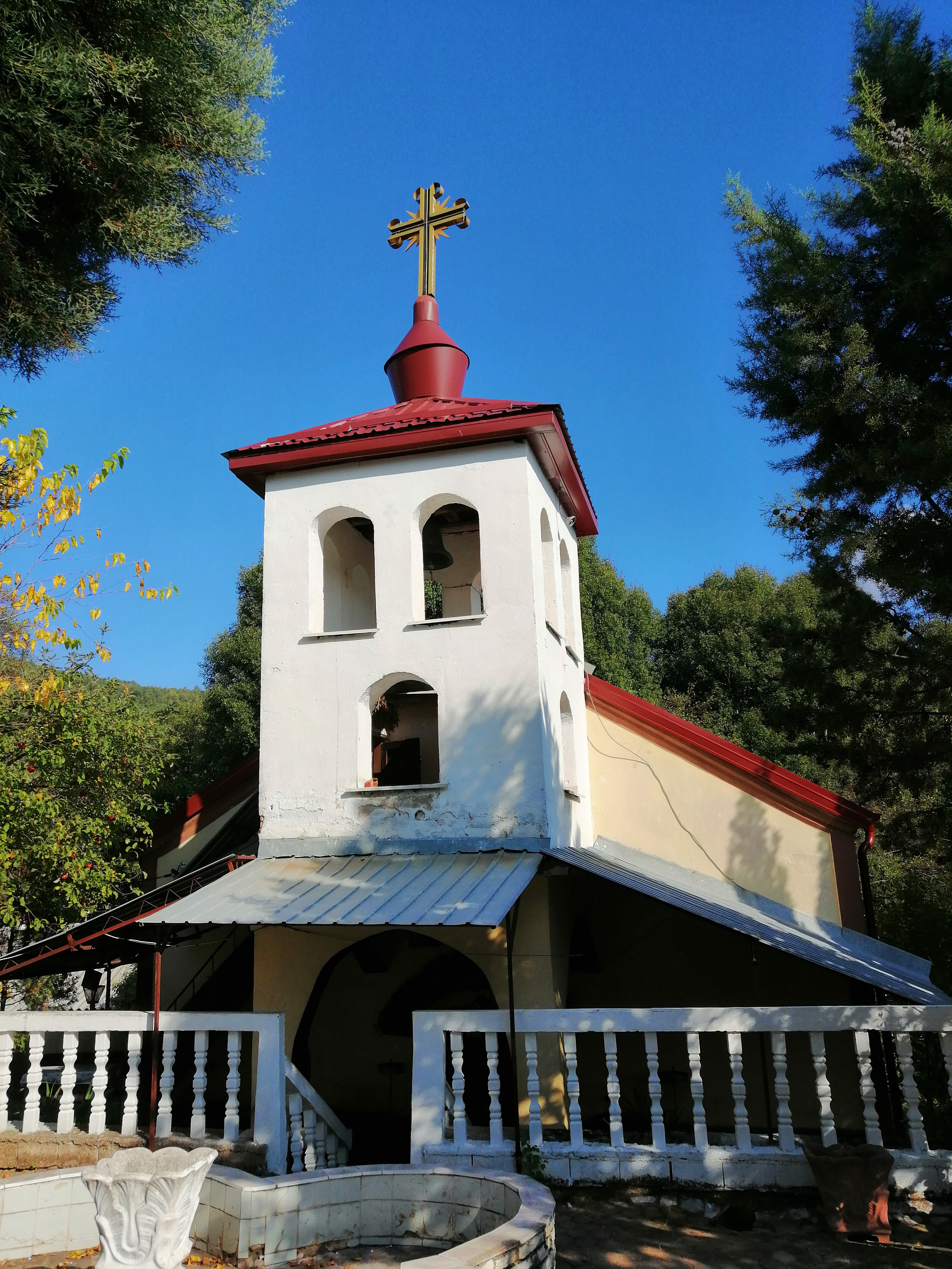 View of the St. Nedela Church in the village Strovija